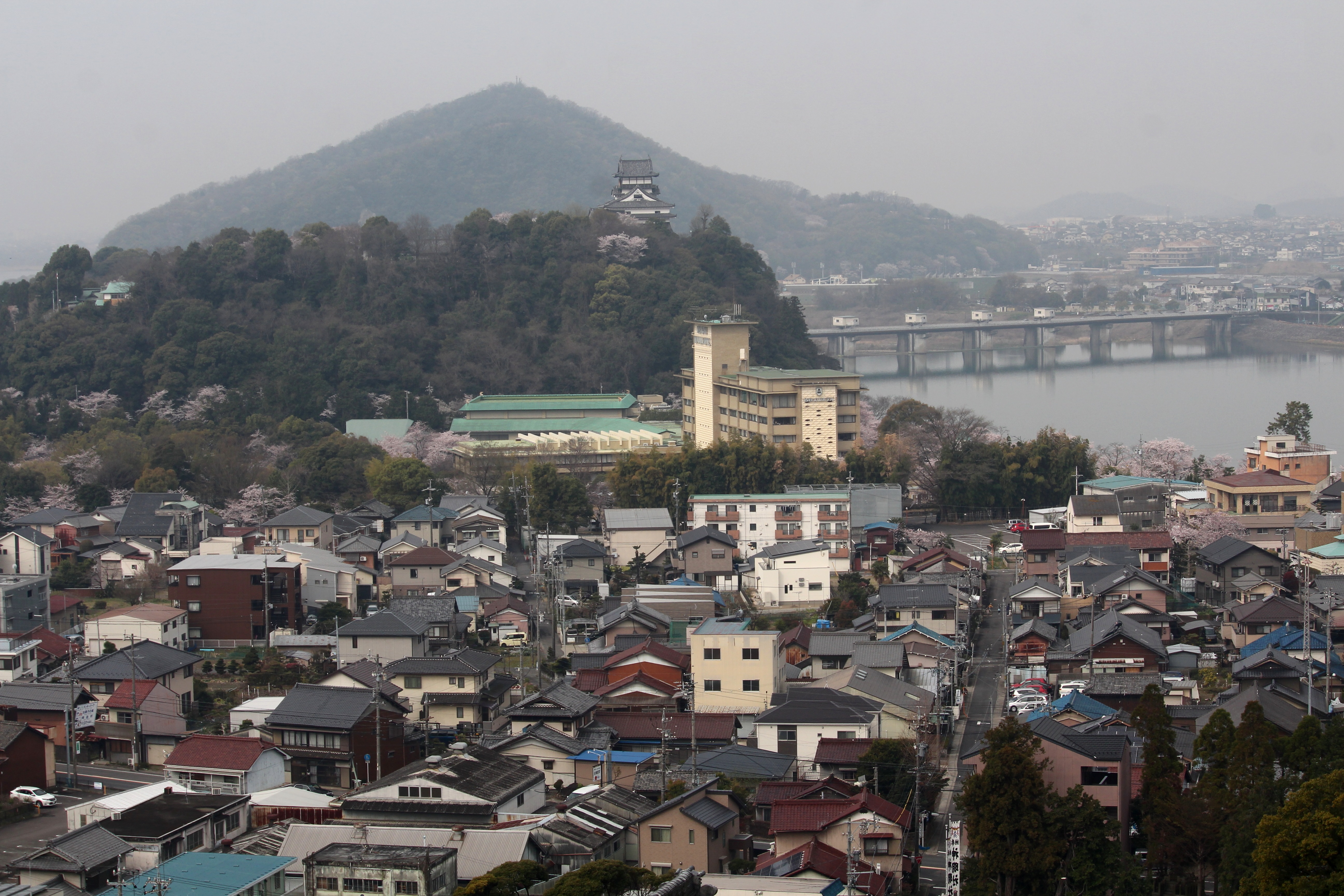 Meitetsu Inuyama Hotel and Inuyama Castle in Inuyama, Aichi prefecture, Japan.